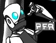 A promotional image for the webcomic Prayer For Ruin